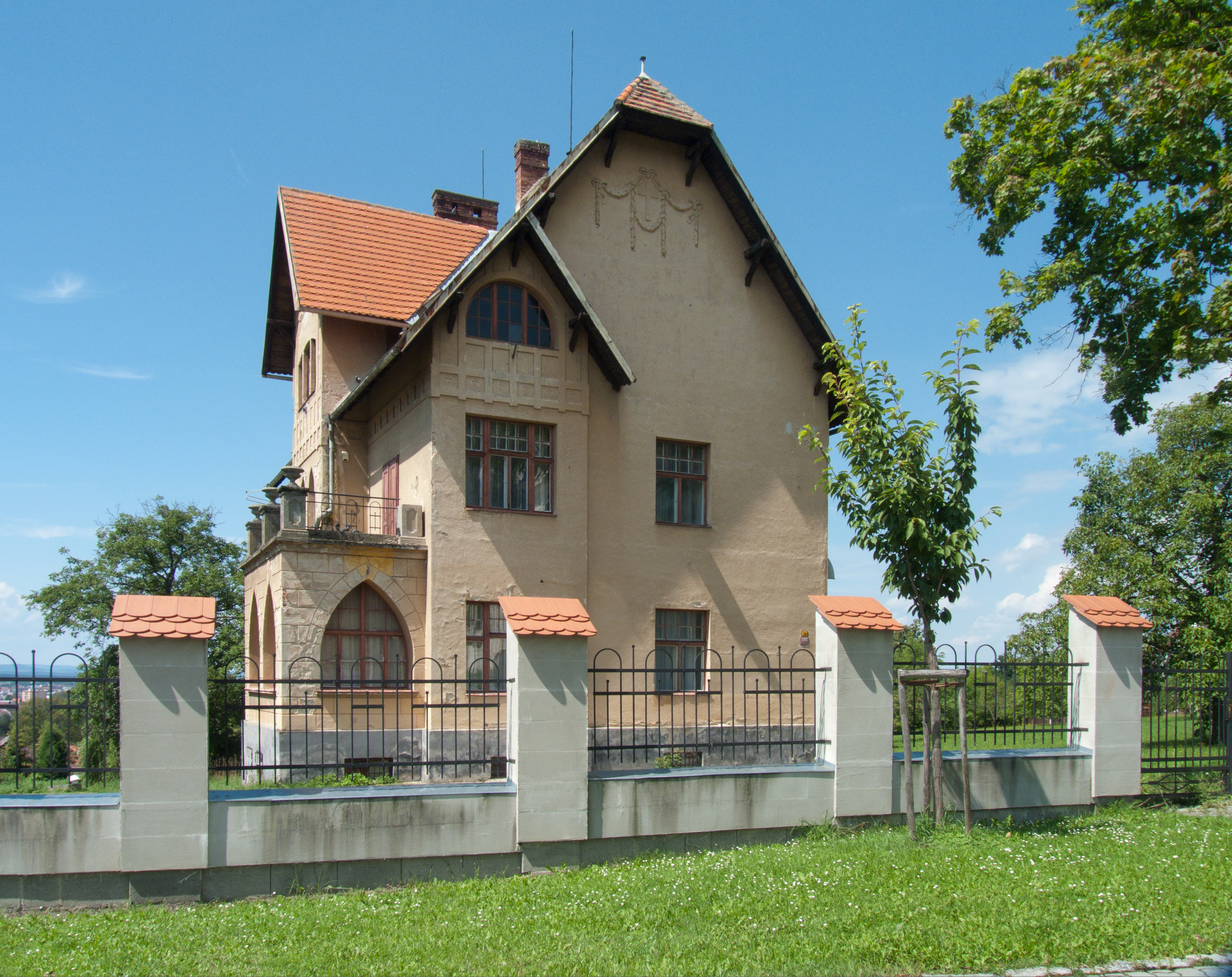 Rectory in the village of Dobrá Voda u Českých Budějovic, České Budějovice District, Czech Republic